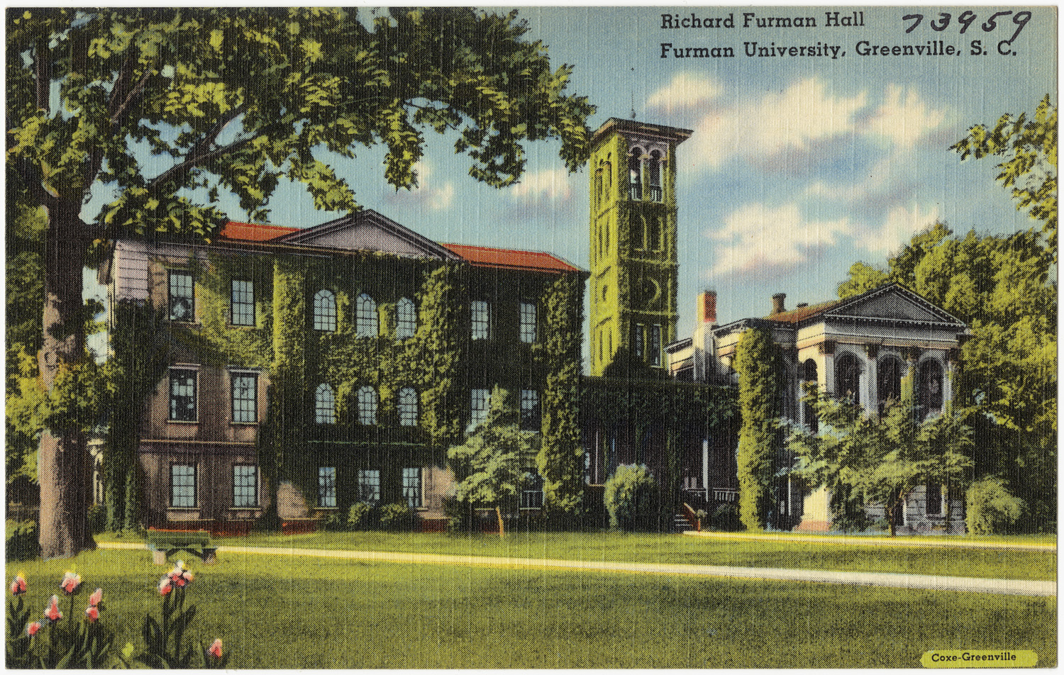 furman university postcard